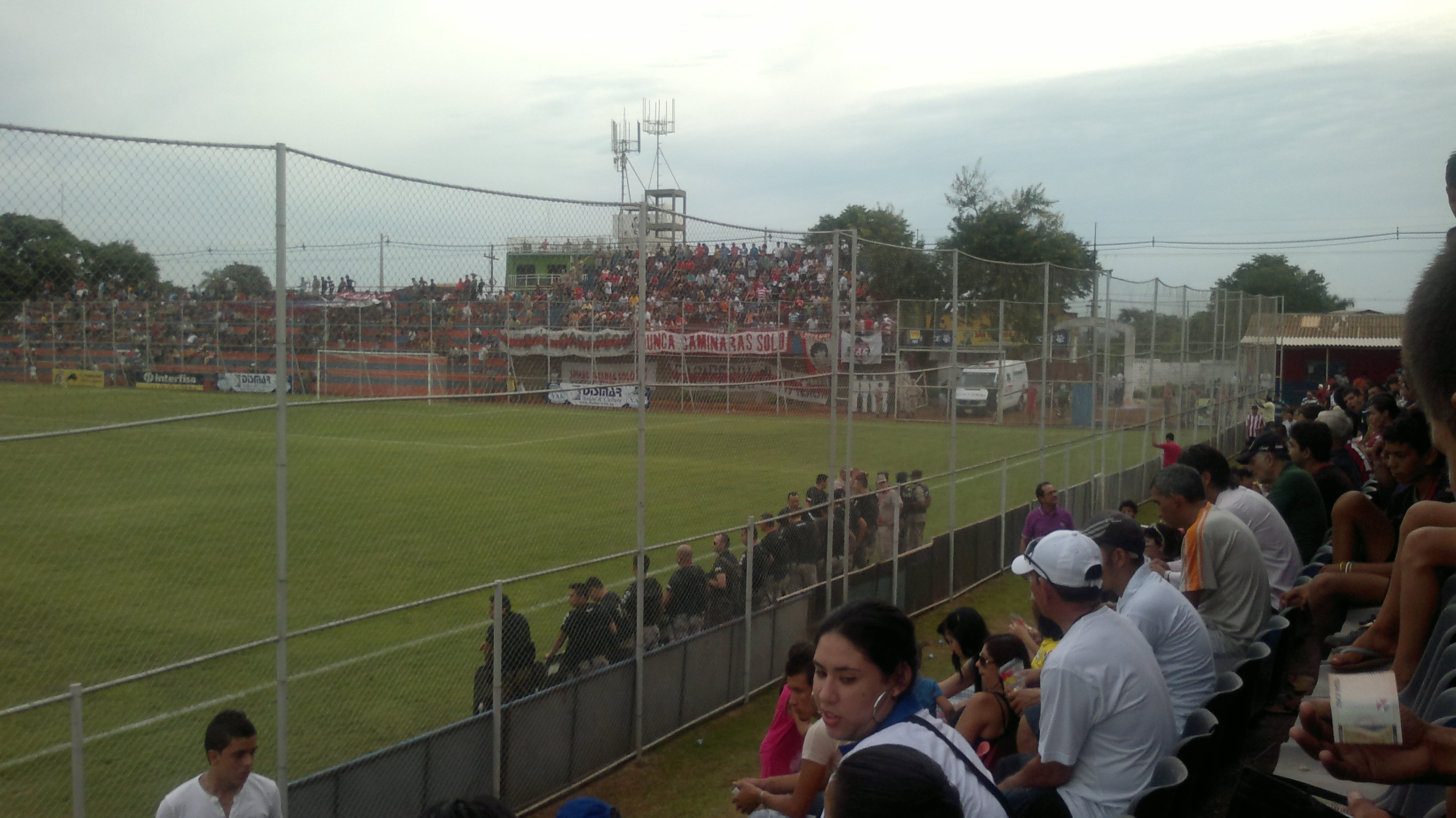 Felipe Giménez Stadium during a game between Cerro de Franco and Carapeguá for the Paraguayan Football League.